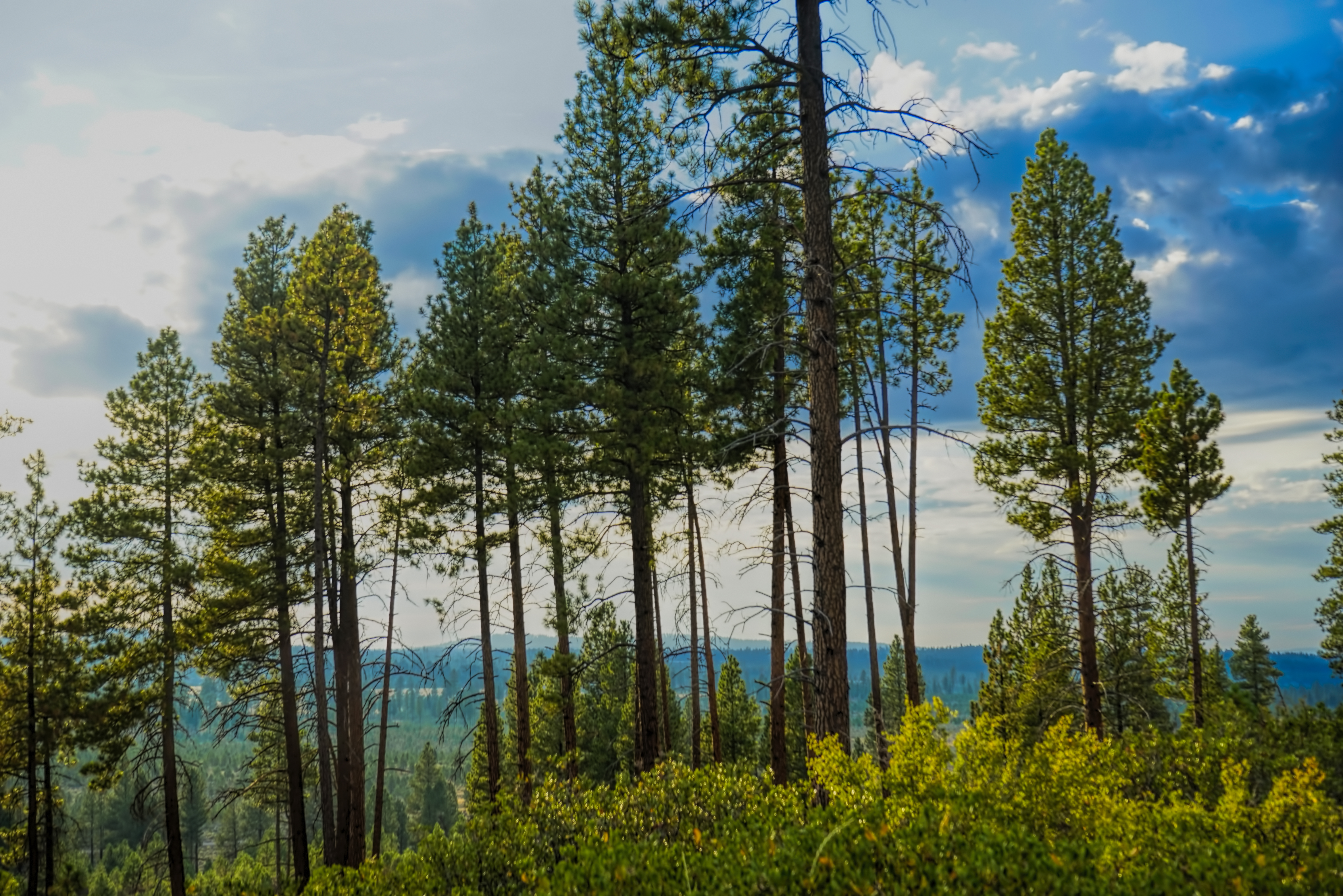 A line if trees on a hillside in the high desert of Ochoco National Forest in eastern Oregon